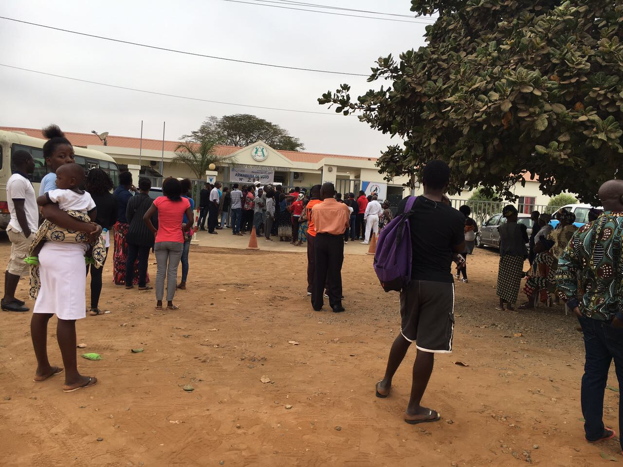 Voters waiting at their polling station in Luanda